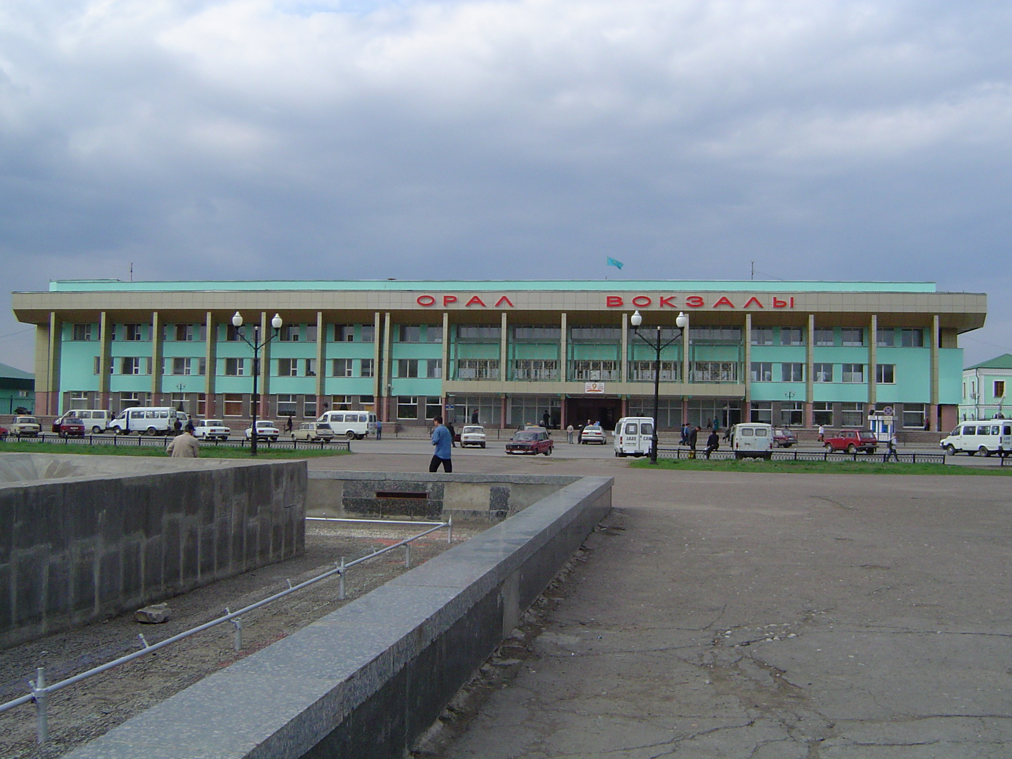 Uralsk (Oral) train station.